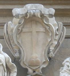 Theatin order coat of arms, at S. Gaetano church in Florence (Italy)